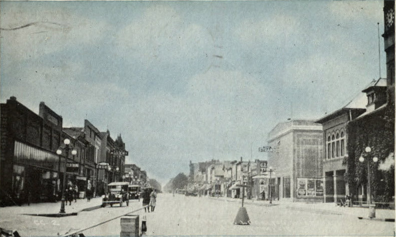 Alma MI, Superior St at Gratiot Looking west, c1910